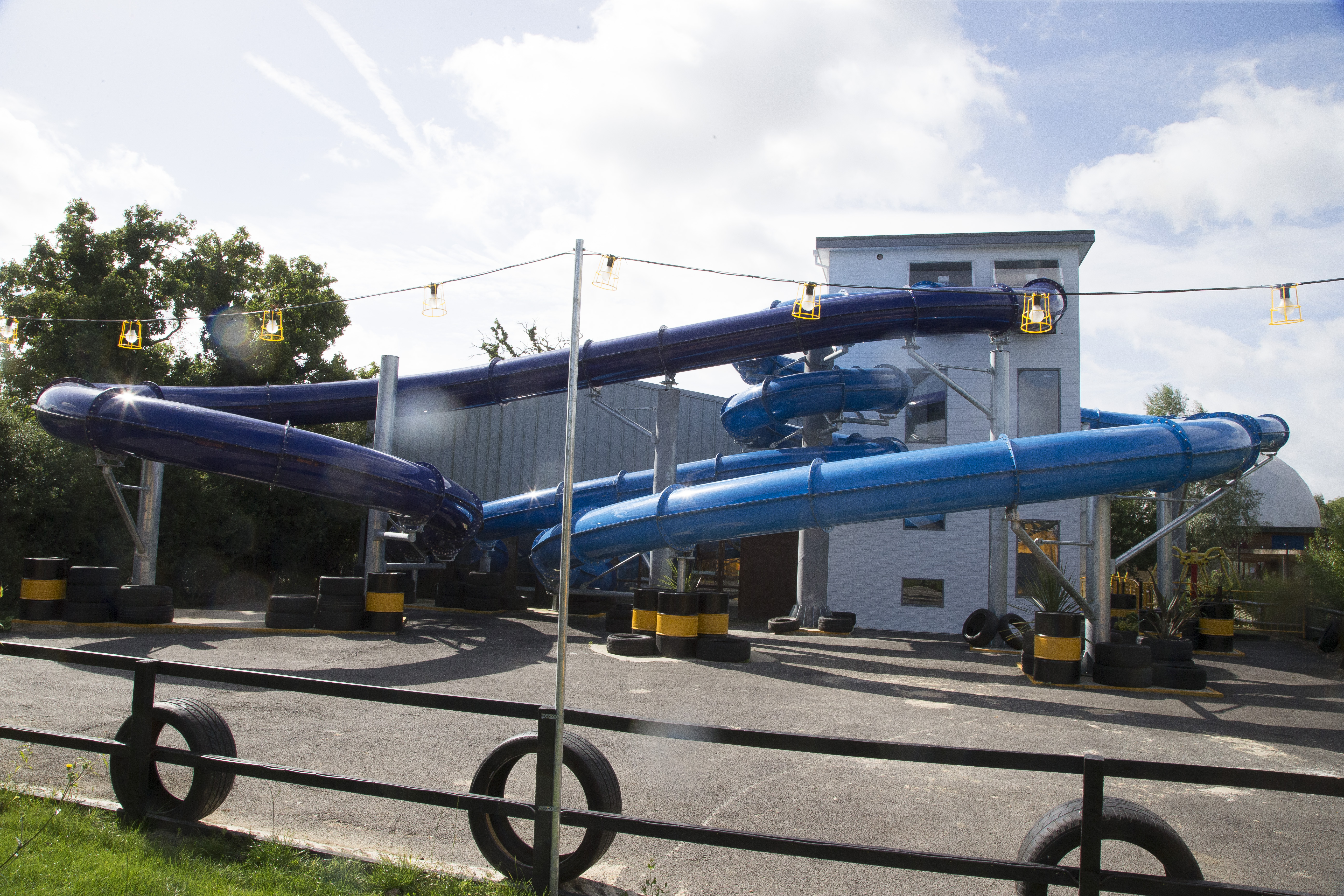 Waterslides at Splash Zone Milton Keynes. View from Adventurers Village.